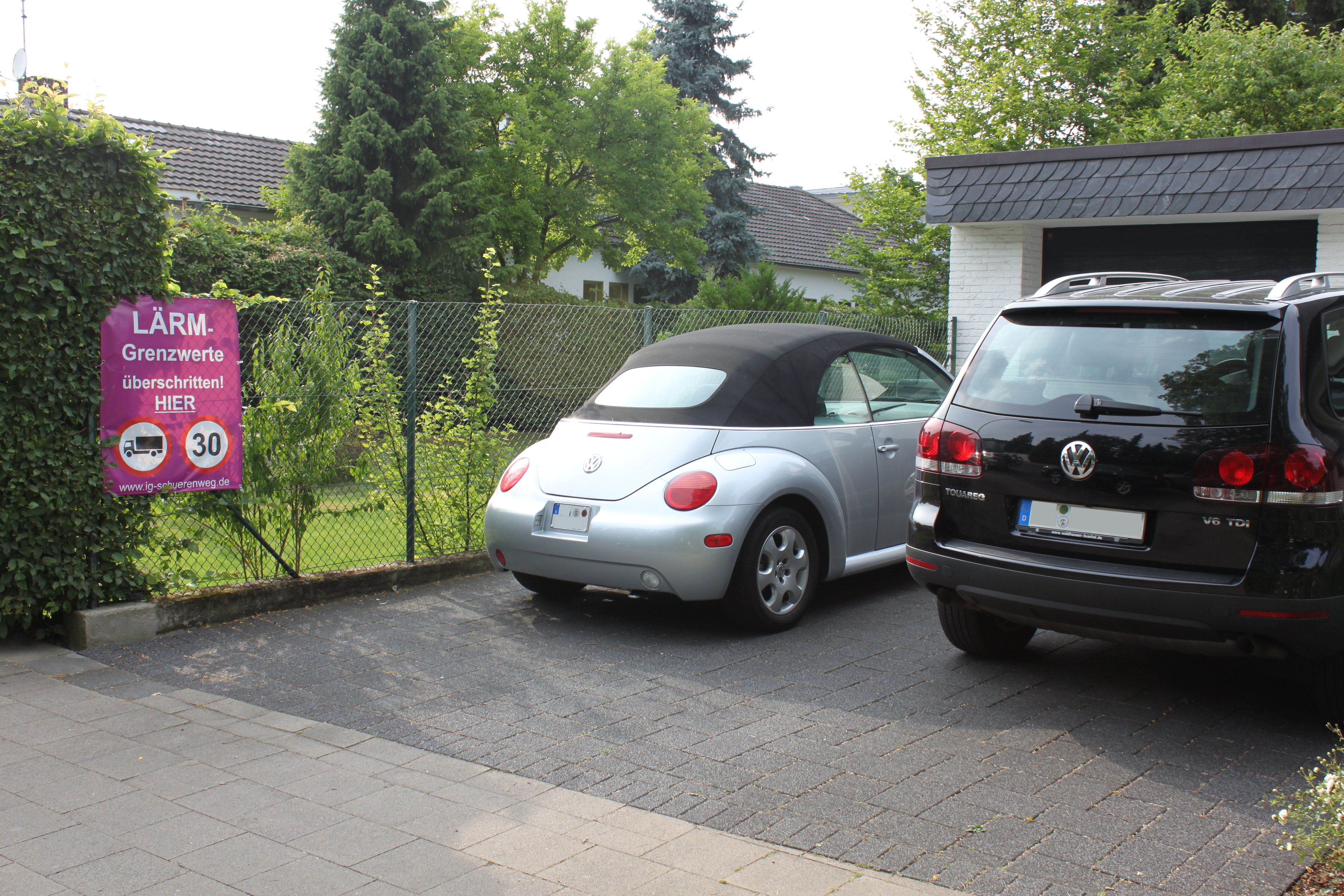 Car owners request measures against traffic noise for the road at their home, a typical Nimby (Not In My Backyard) situation